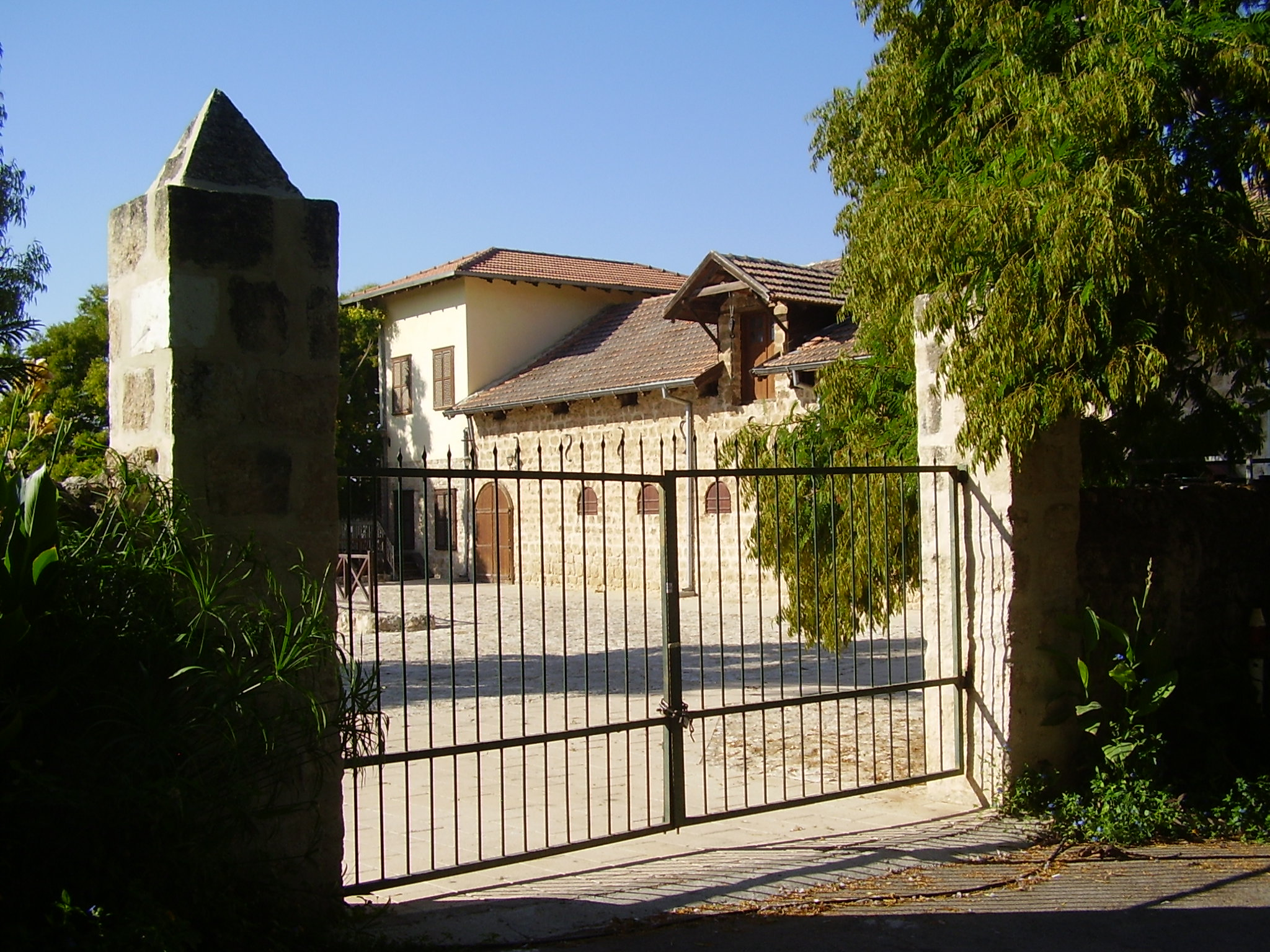 baron\'s farm in mazkeret batya